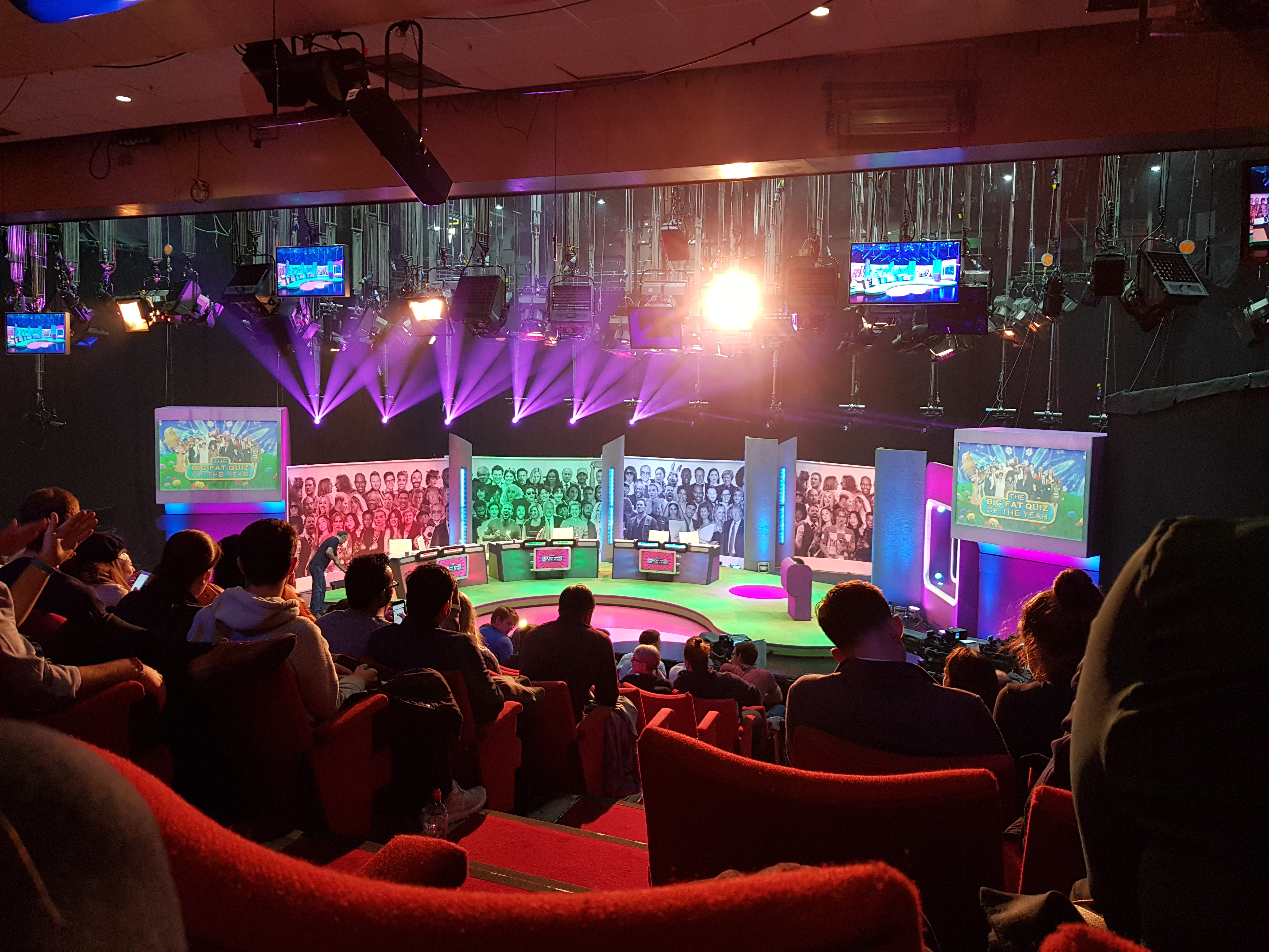 View of Big Fat Quiz of the Year 2018 set, taken in BBC Elstree Studios